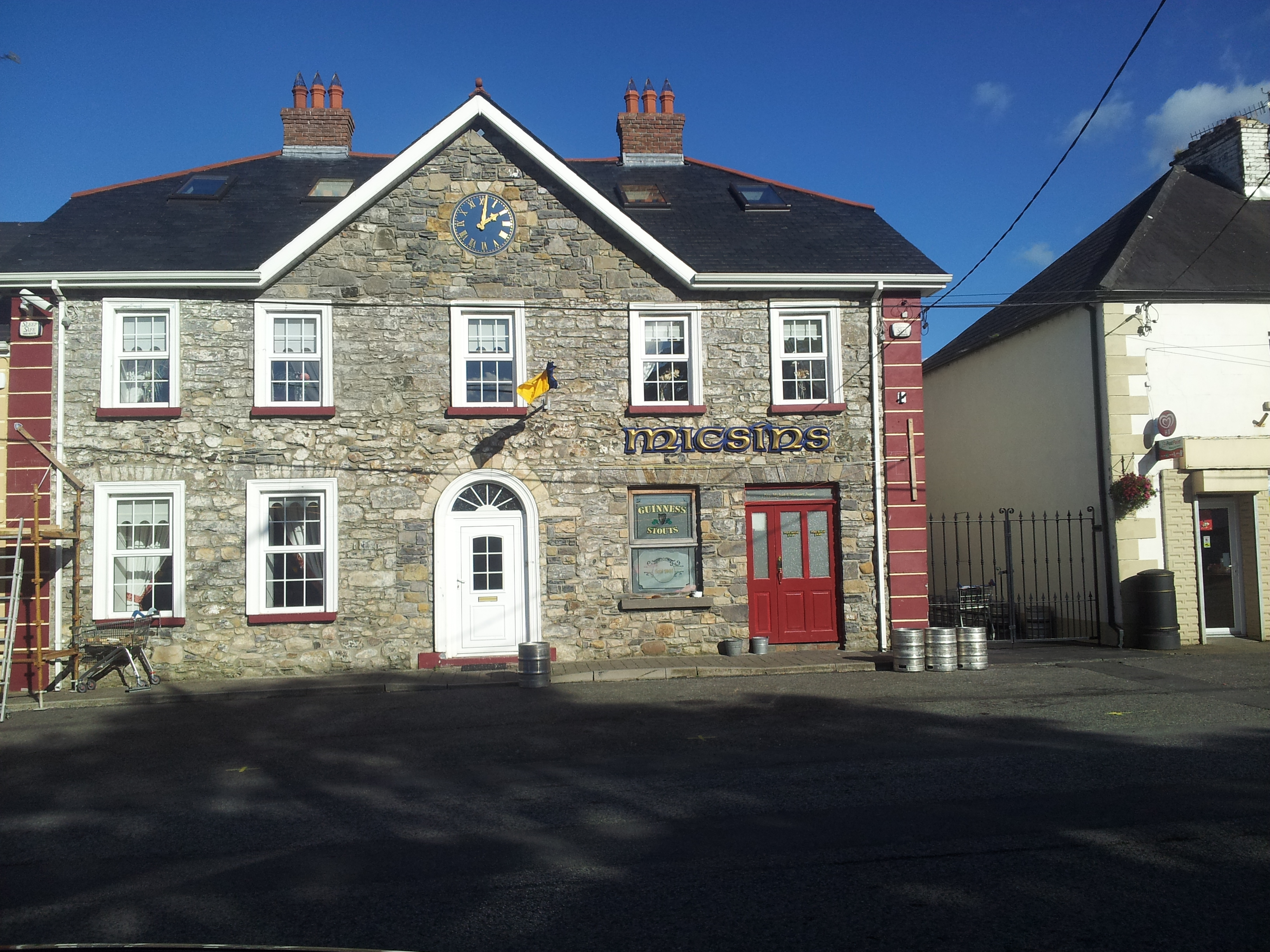 Micsin's Pub Kilcogy Co Cavan